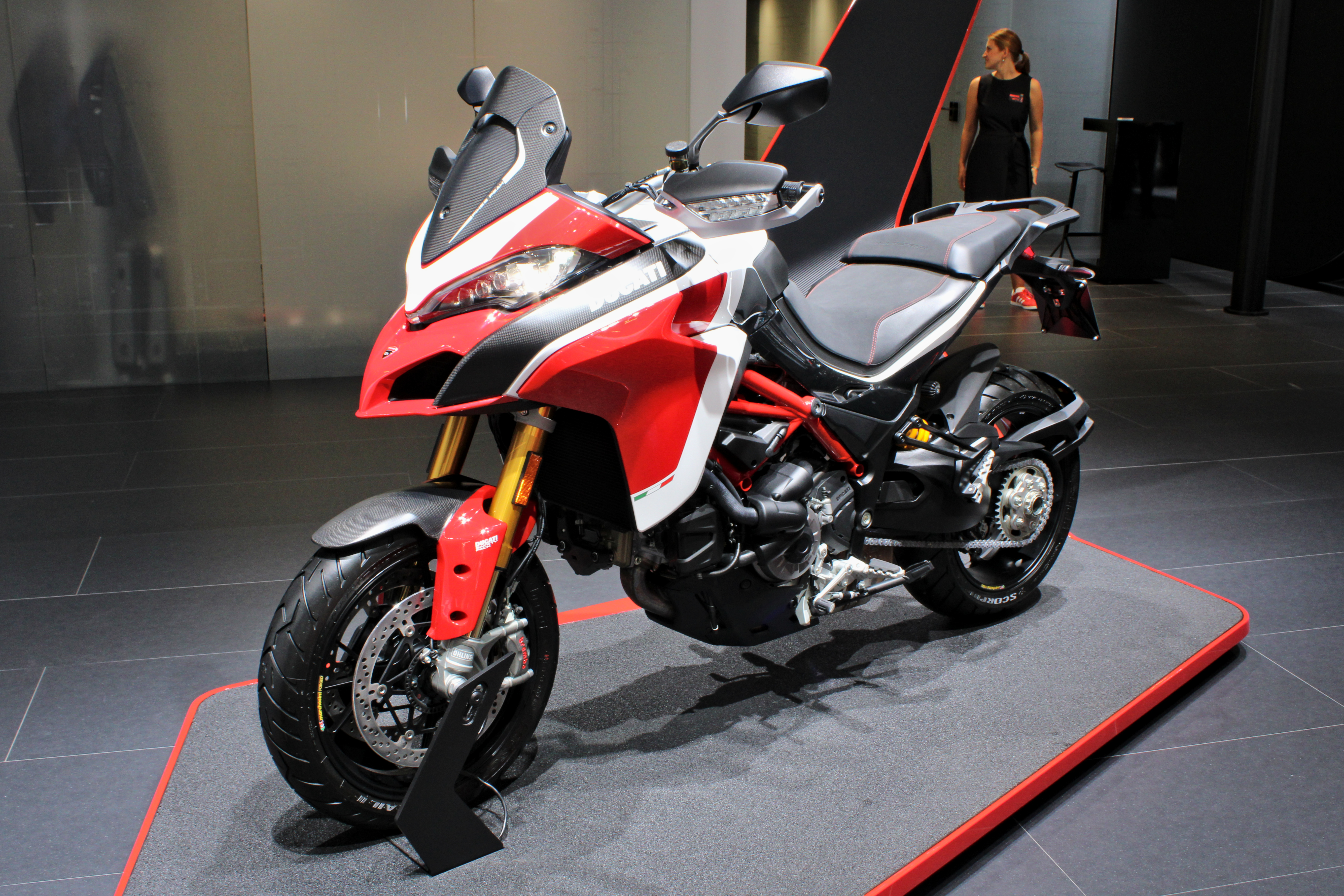 Ducati Multistrada 1260 Pikes Peak at Paris Motor Show 2018